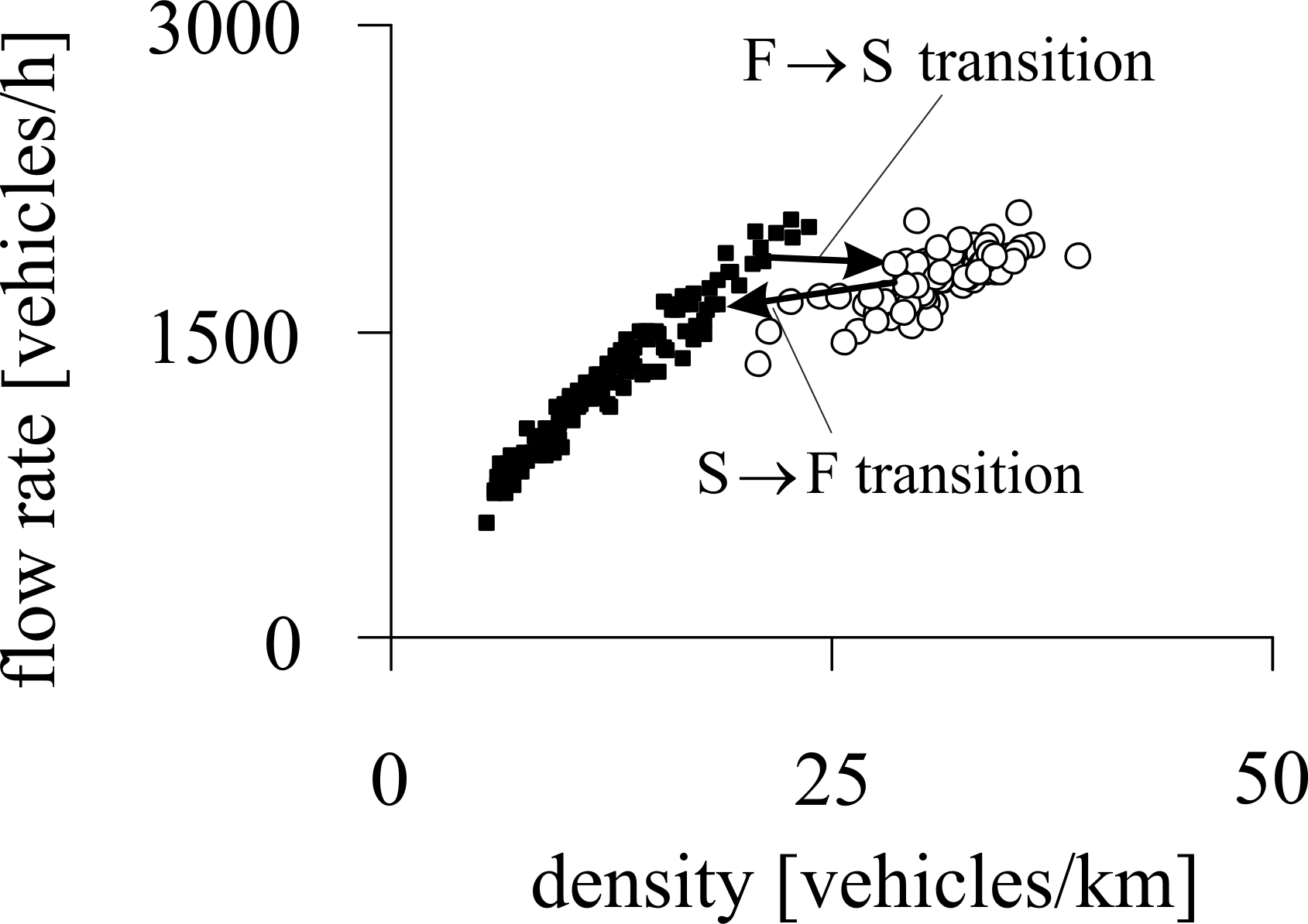 Fundamental empirical features of traffic breakdown